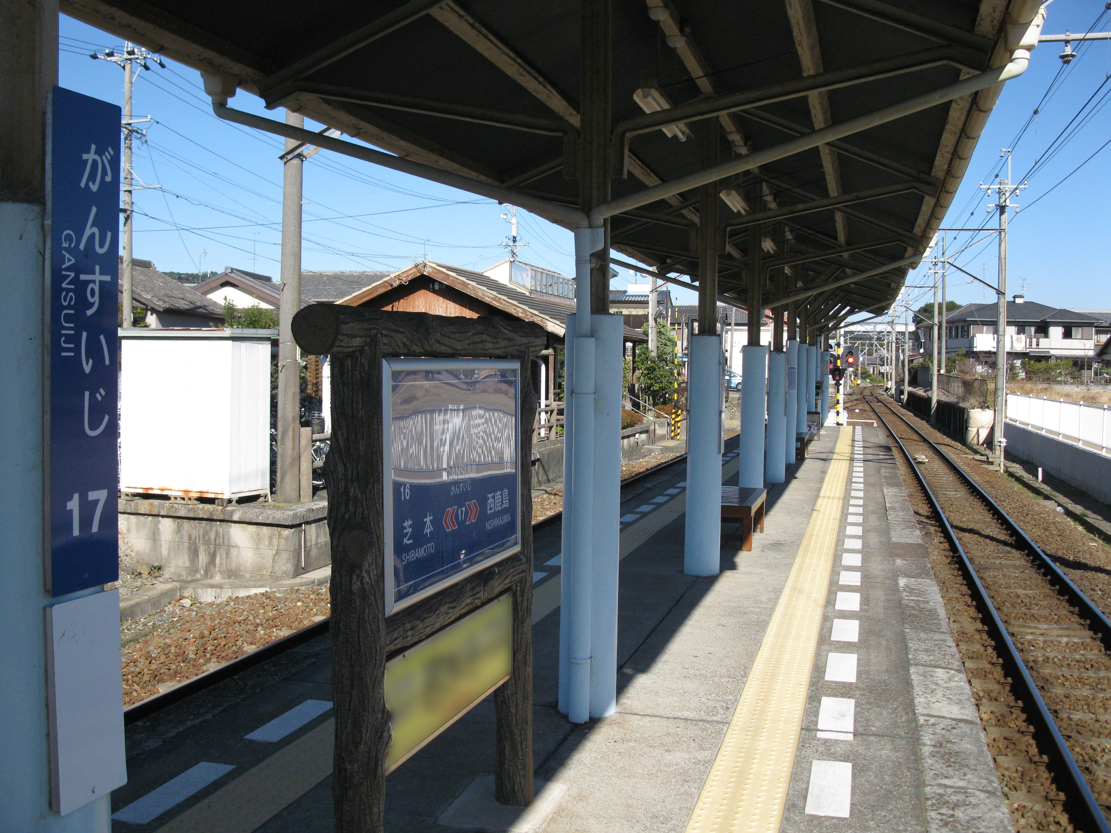 Enshū-Gansuiji Station platform (Enshū Railway Line)